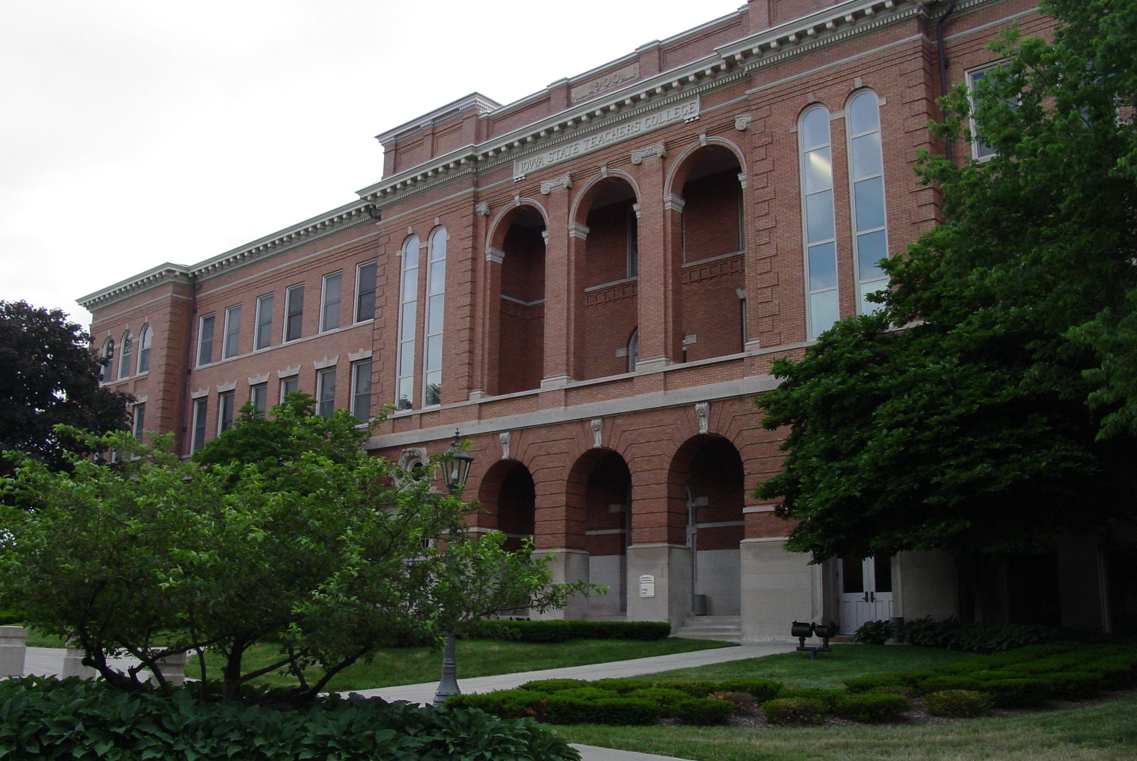 University of Northern Iowa's Lang Hall. Cedar Falls, Iowa Source Taken by MadMaxMarchHare.